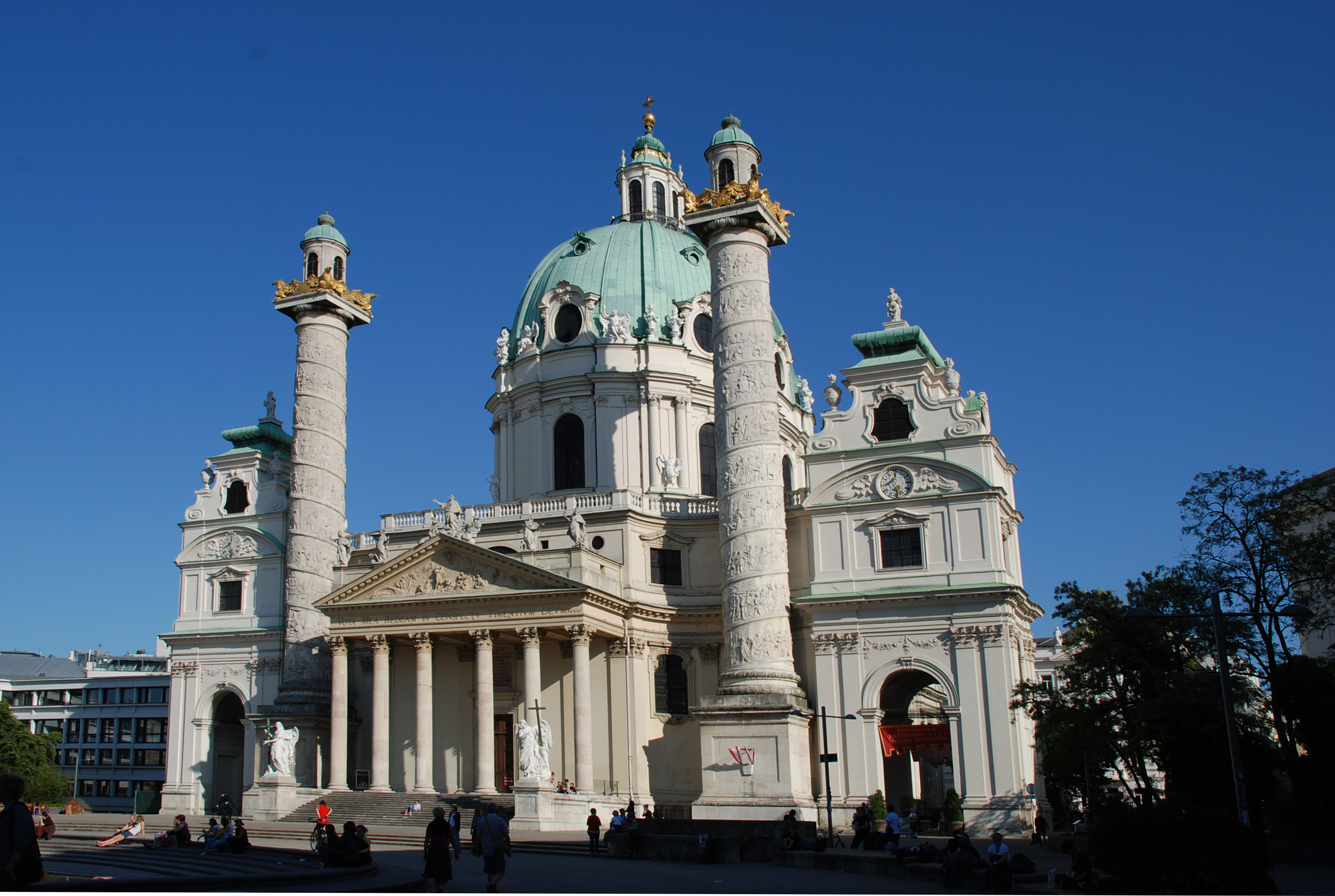 Austria, Vienna, St. Charles's Church